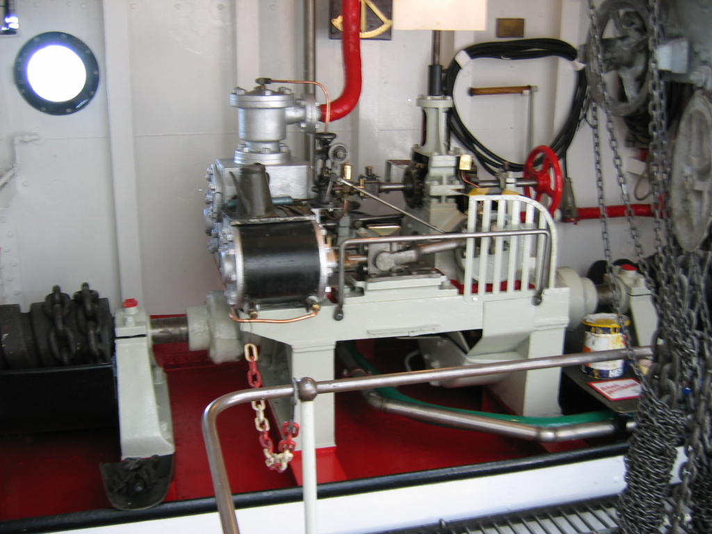 Author =MaciejKa Source =MaciejKa